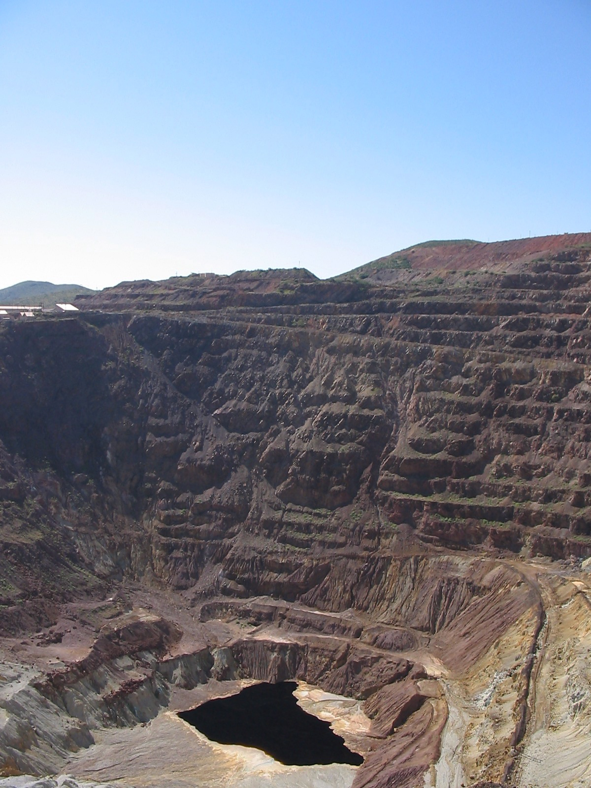 The Lavender Pit, an open pit copper mine, Bisbee, Arizona. taken by me, Sept. 30, 2006